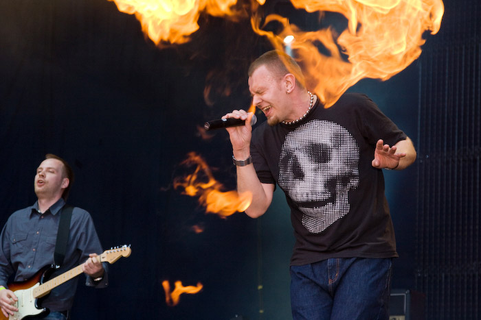 Tartak, a popular hip-hop/rapcore/alternative crossover band from Ukraine.